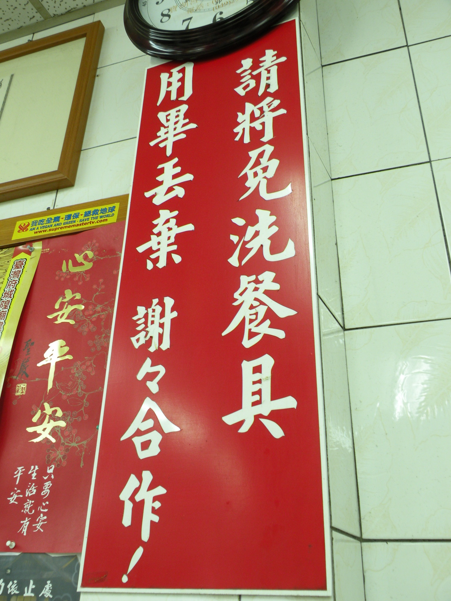 The Japanese character "々" (踊り字, odoriji, iteration mark) from a notice of breakfast restaurant "清褀" (Qingqi) in Tainan, Taiwan.